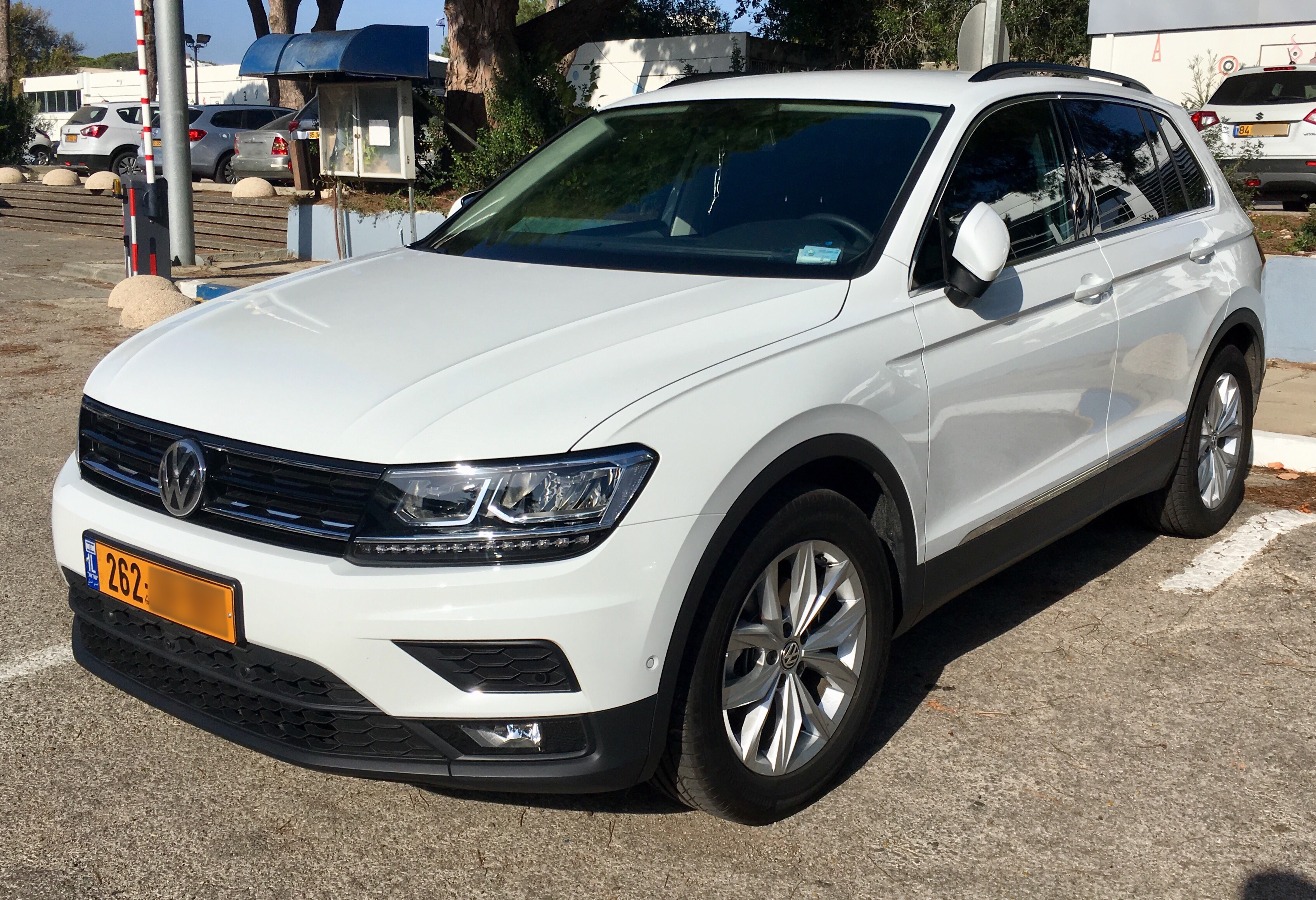 Tiguan